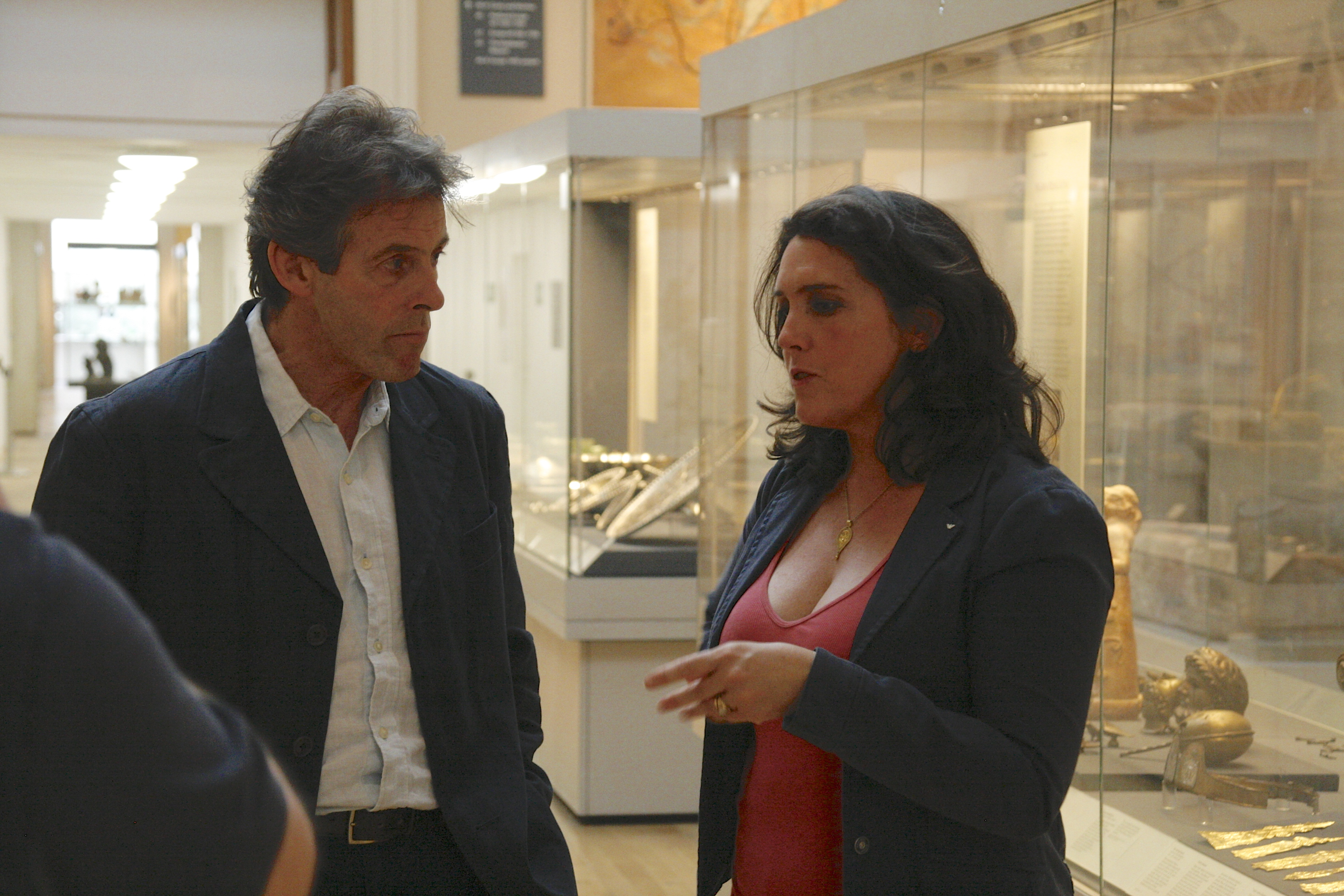 The historian, author, broadcaster, and television leader Bettany Hughes and the curator of the Romano-British Collections at the British Museum Ralph Jackson during the filming of ITV television programme "Britain's Secret Treasures". Image from the year 2012.